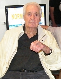 Pat Summerall in December 2008.